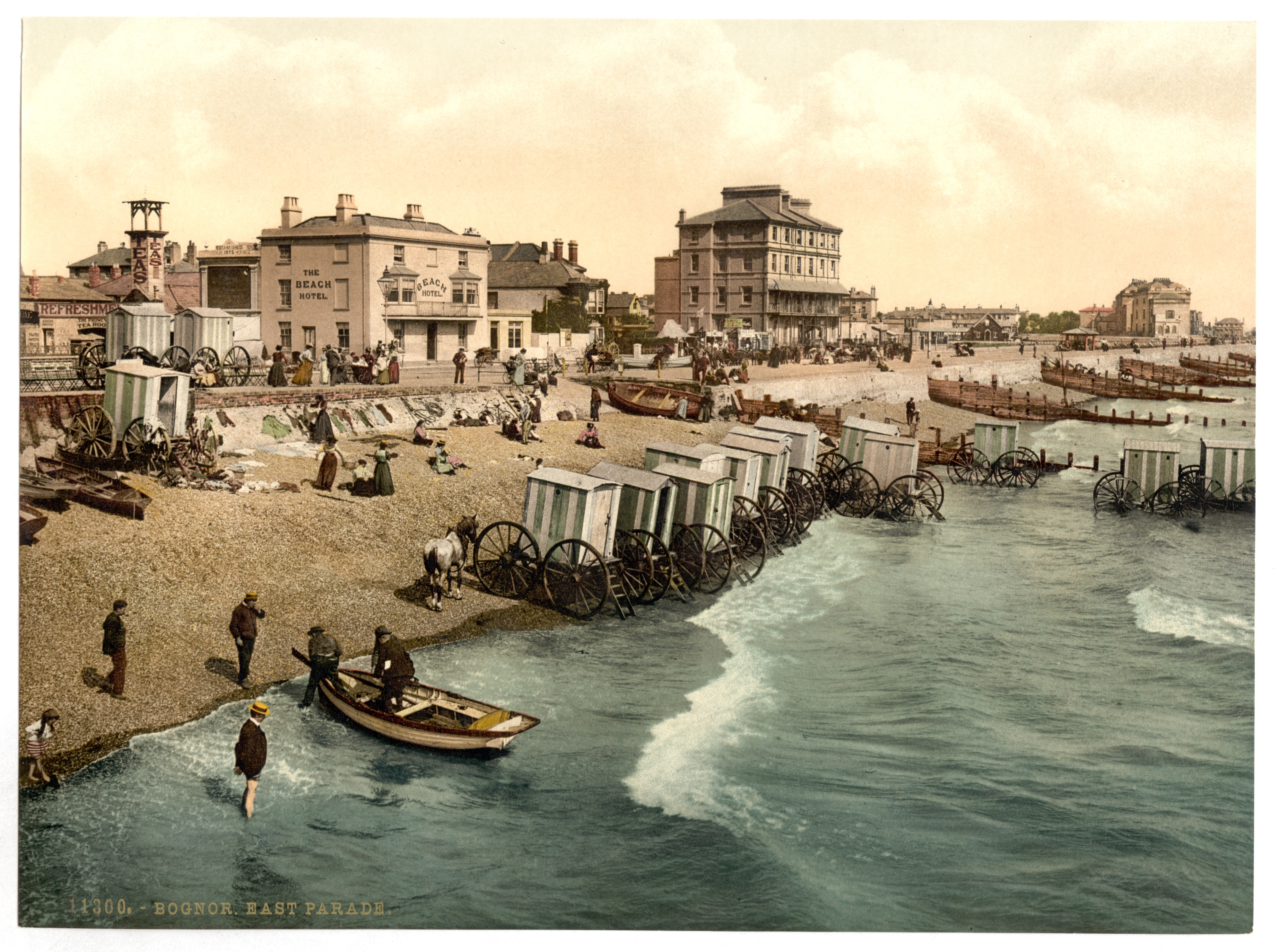 Forms part of: Views of the British Isles, in the Photochrom print collection.; More information about the Photochrom Print Collection is available at Title from the Detroit Publishing Co., Catalogue J-foreign section, Detroit, Mich. : Detroit Publishing Company, 1905.; Print no. "11300".